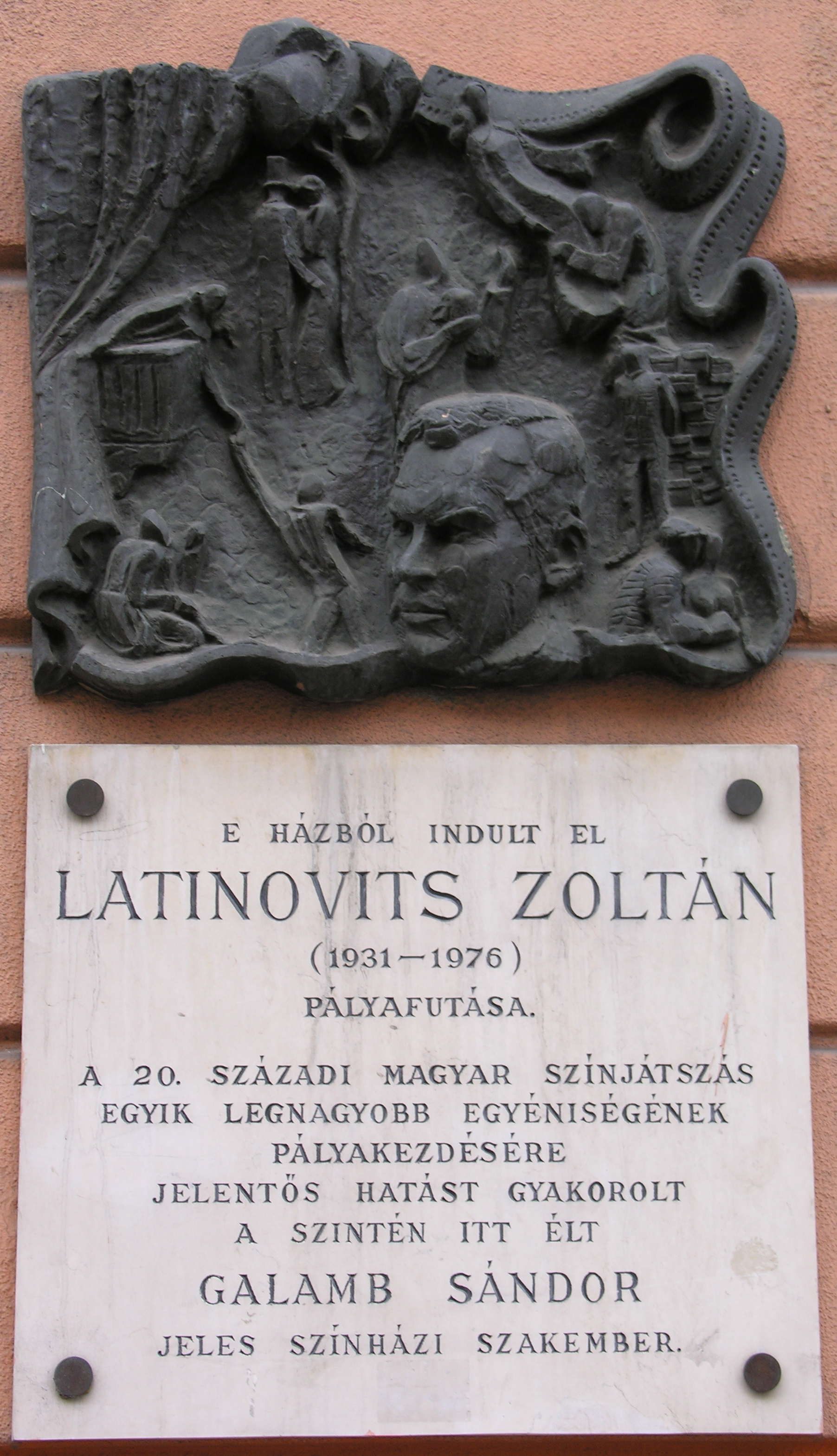 Commemorative plaque of Zoltán Latinovits and Sándor Galamb in Budapest District IX, Mester Street No 1